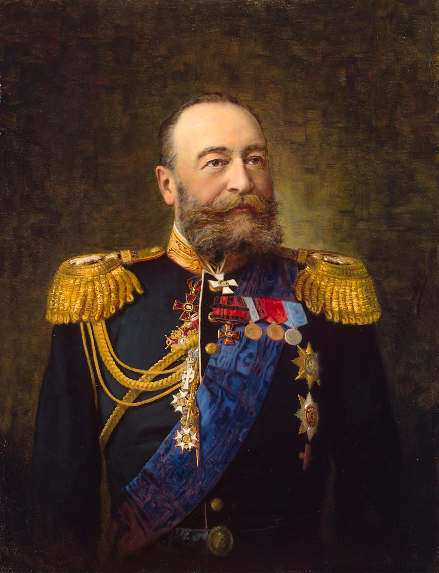 Admiral Alexeev